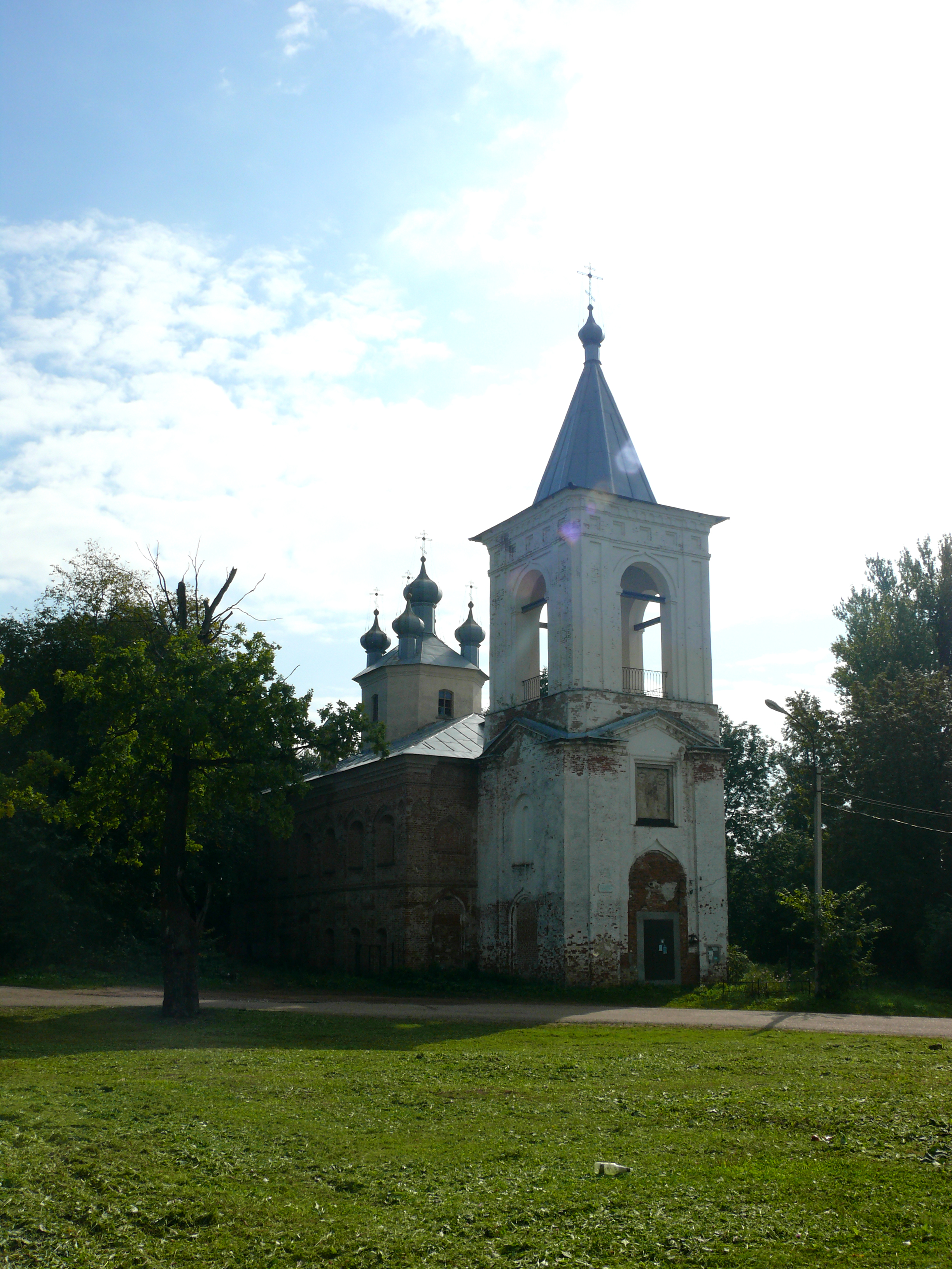 The Bell tower of Voskresensky monastery in Veliky Novgorod, Russia